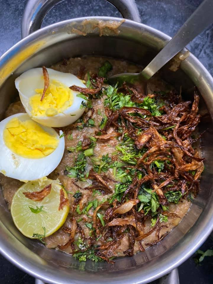 Mutton Hyderabadi Haleem with Egg, Lime, and Fried Onions.